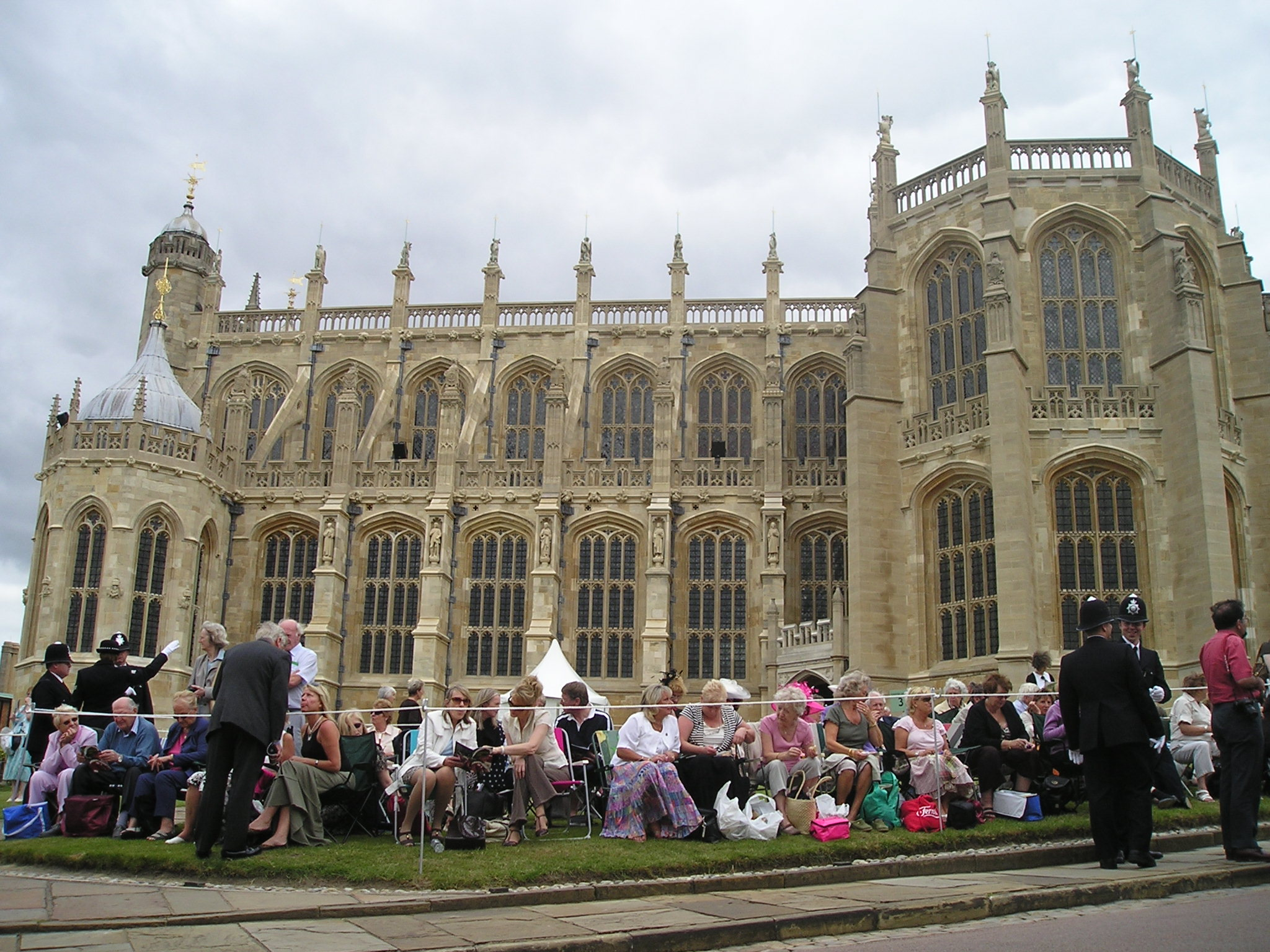 Members of the public waiting outside St George's Chapel at Windsor Castle to watch the procession to the service of the Order of the Garter.